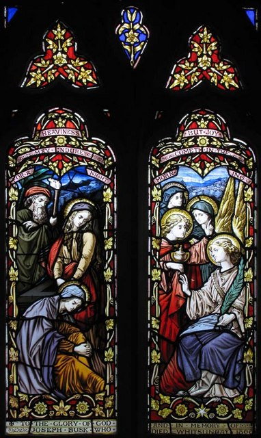 St Giles, Codicote, Herts - Window. - Text from Psalm 30,5